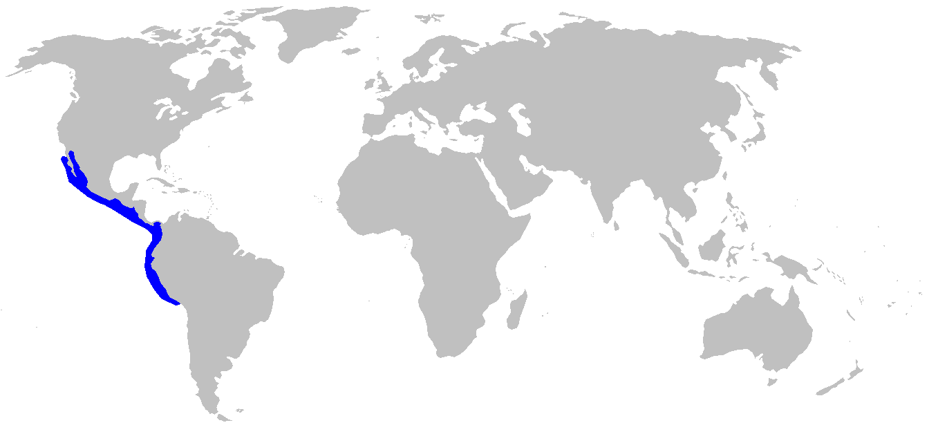 Distribution map for Nasolamia velox